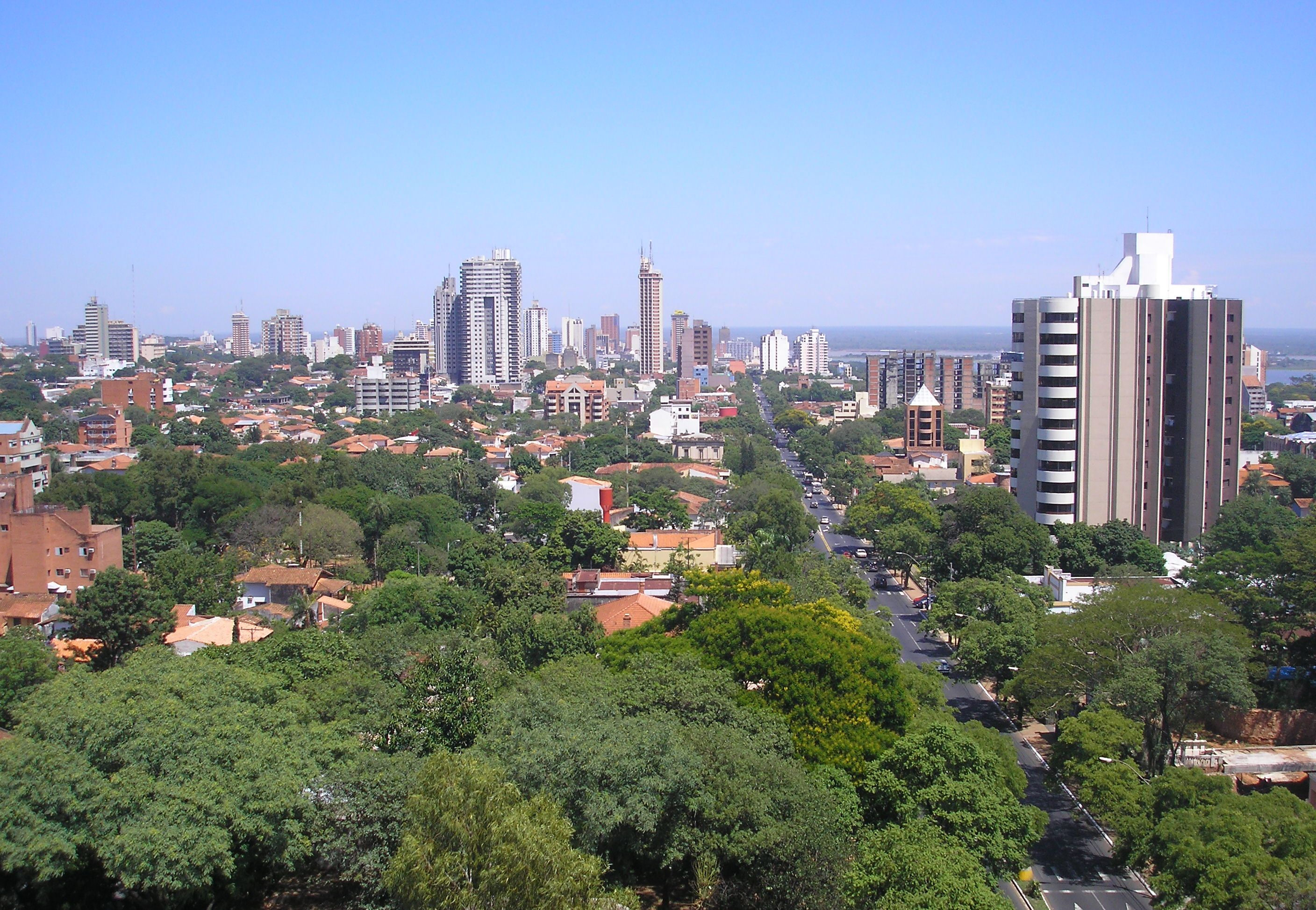 Vista de Asunción desde el Ministerio de Defensa Nacional